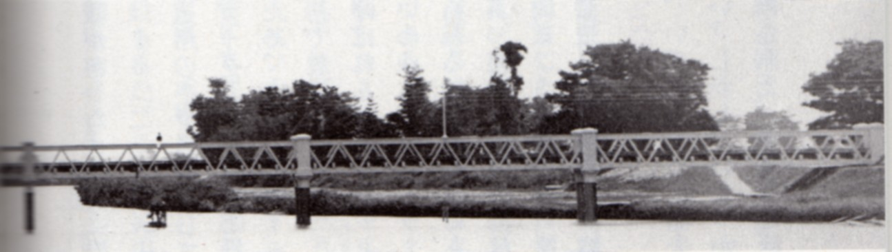 Shimo-Jusogawa bridge on Tokaido main line. The truss was designed by British engineer John England and built by Darlington Iron in England. This bridge was dismantled around 1901.